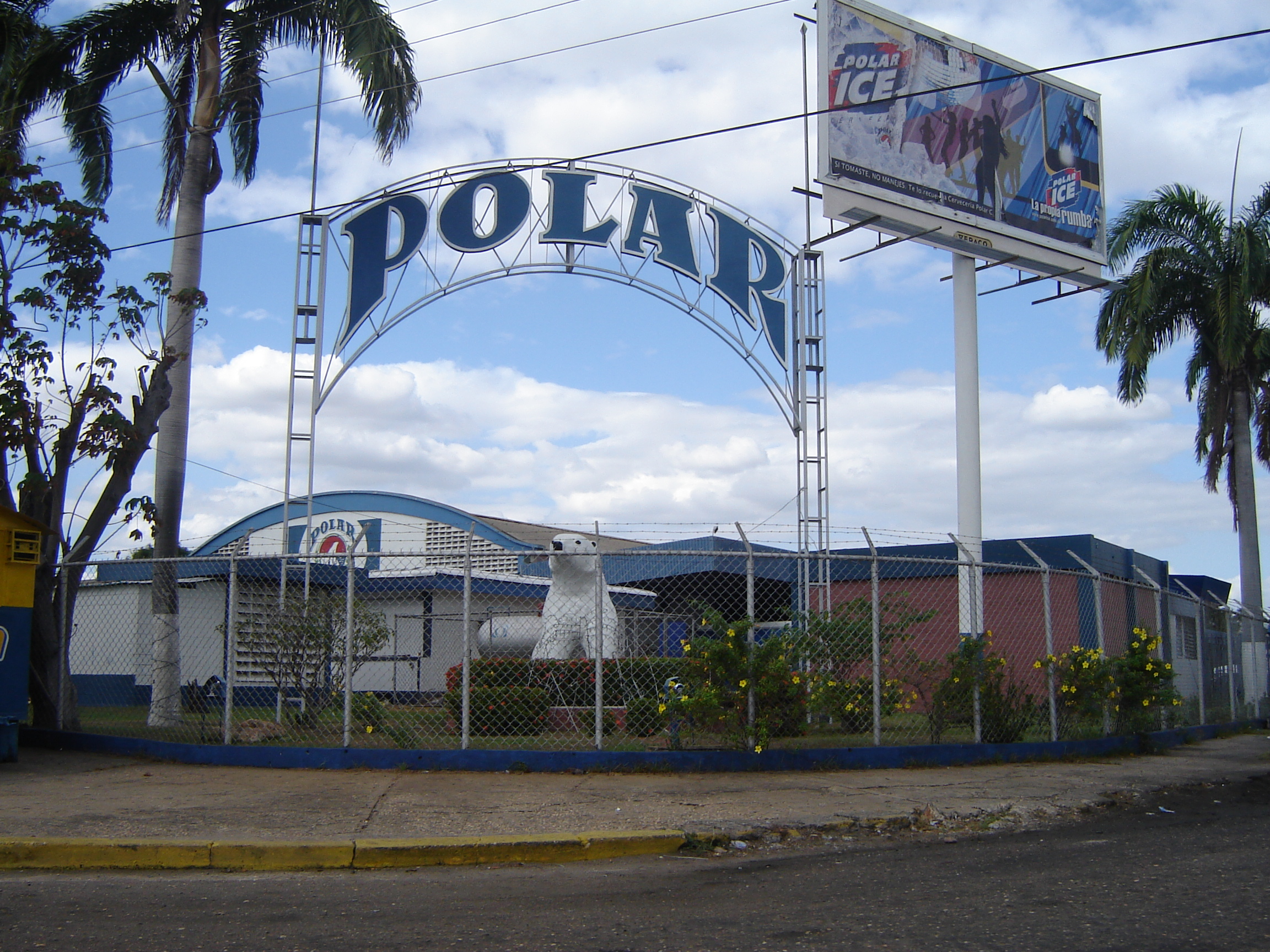 Distribuidora Empresas Polar, Ciudad Bolívar, I take it on December 30, 2006